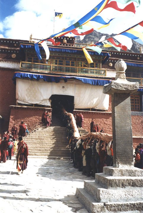 Carrying the Karma Gadri Thangka out of the Temple for displaying on the Mountain. Sagadawa festival. Tsurphu Monastery. It takes a minimum of sixty strong people to carry it.